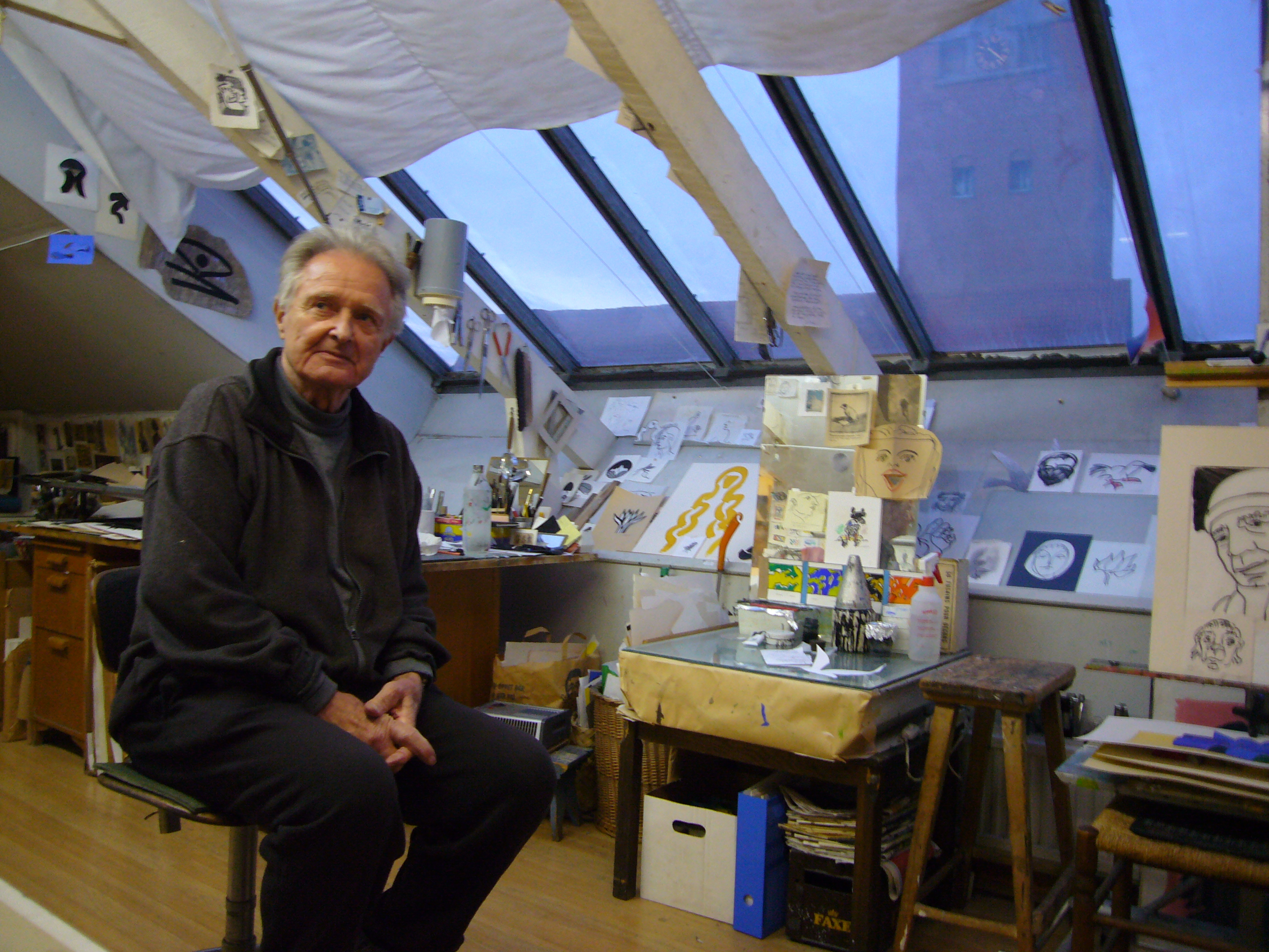 The Swedish artist Olle Langert (1924-2016) in his studio in Gothenburg, with Masthugget Church in the background.